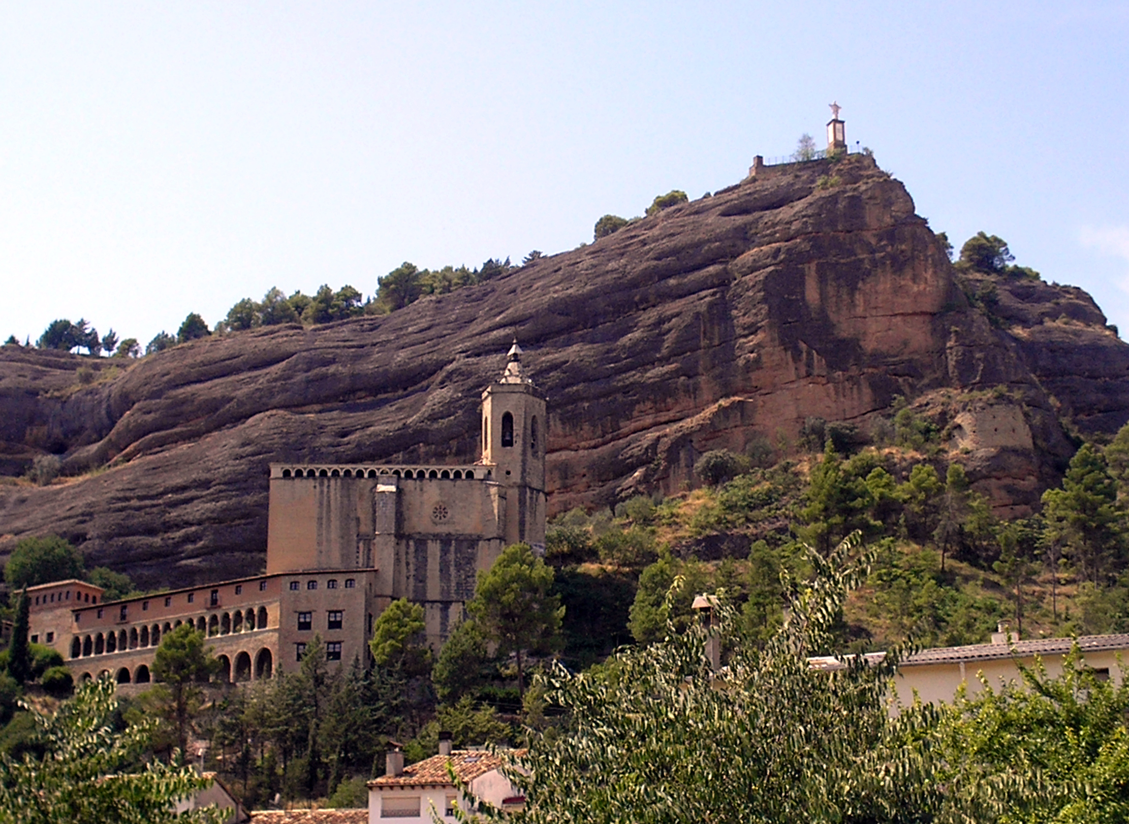 Sanctuary of Nuestra Señora de la Peña, at Graus (Huesca, Spain)